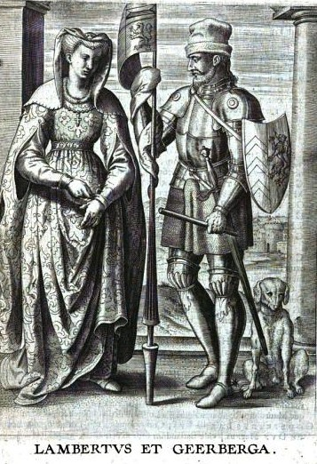 Lambert and Gerberga of Lower Lorraine